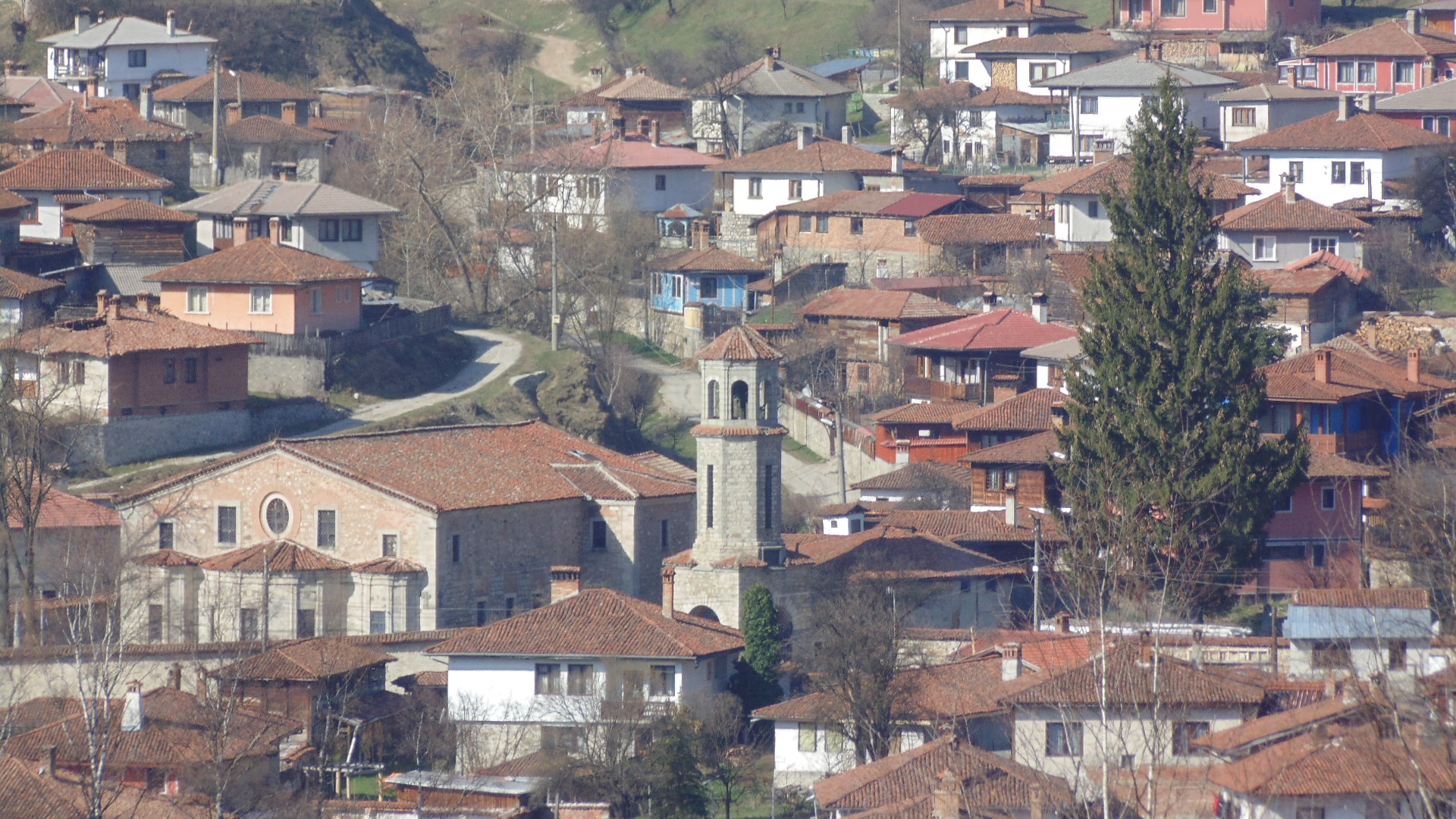 Saint Nicholas church, Koprivshtitsa